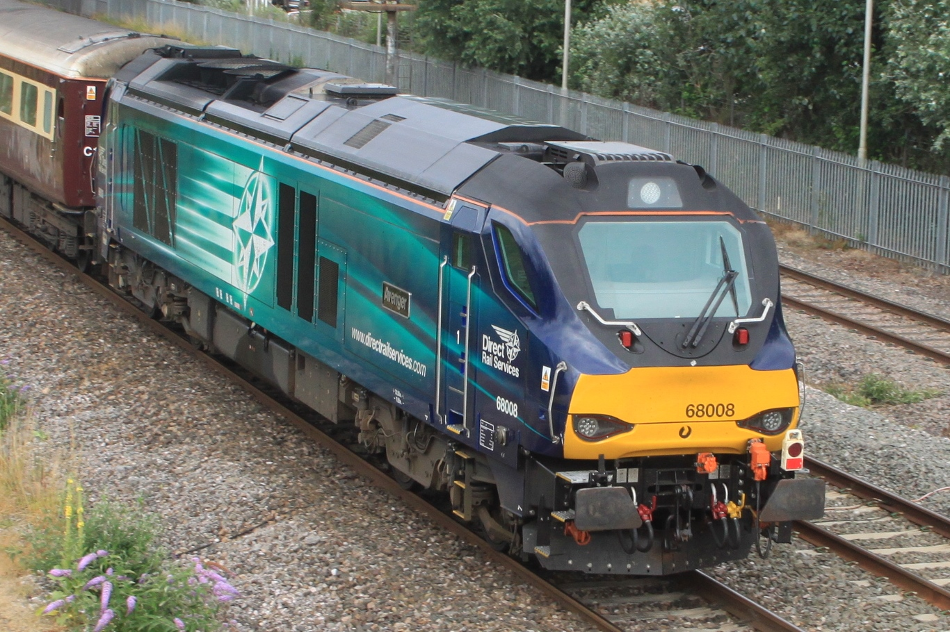 Direct Rail Services' 68008 Avenger. It is the "tail" locomotive on a Belmond British Pullman excursion west through Norton Fitzwarren in Somerset.